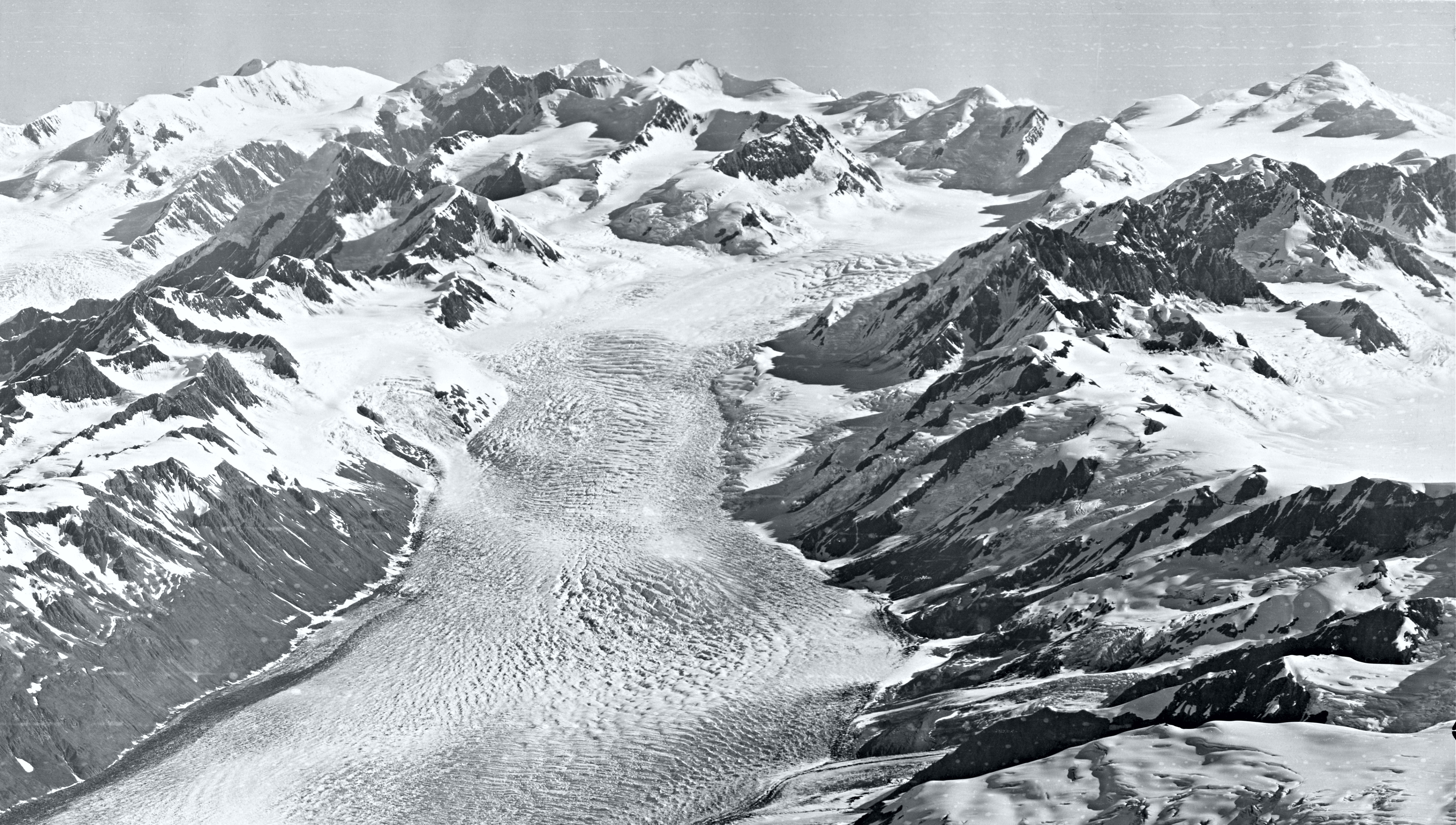 Mount Witherspoon and Yale Glacier War Department. Army Air Forces. 6/20/1941-9/26/1947